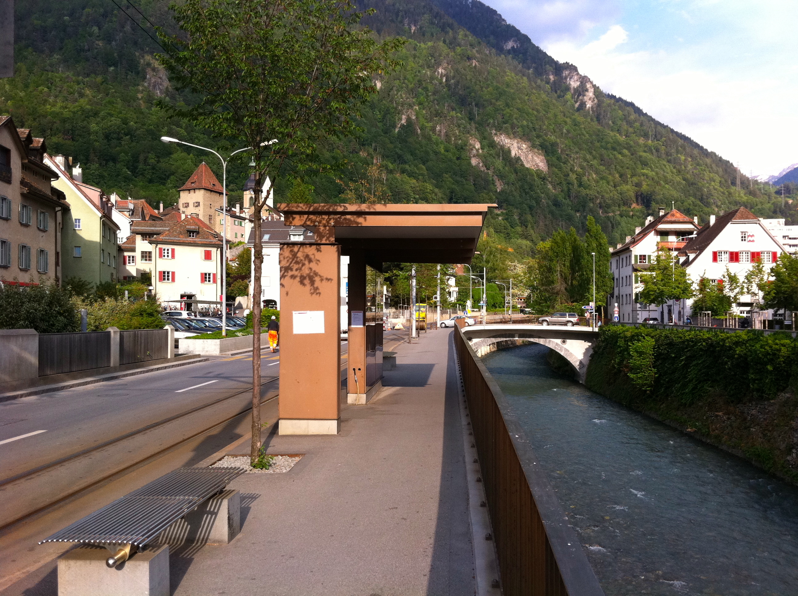 Chur Stadt train stop at Plessur river, Arosa railway